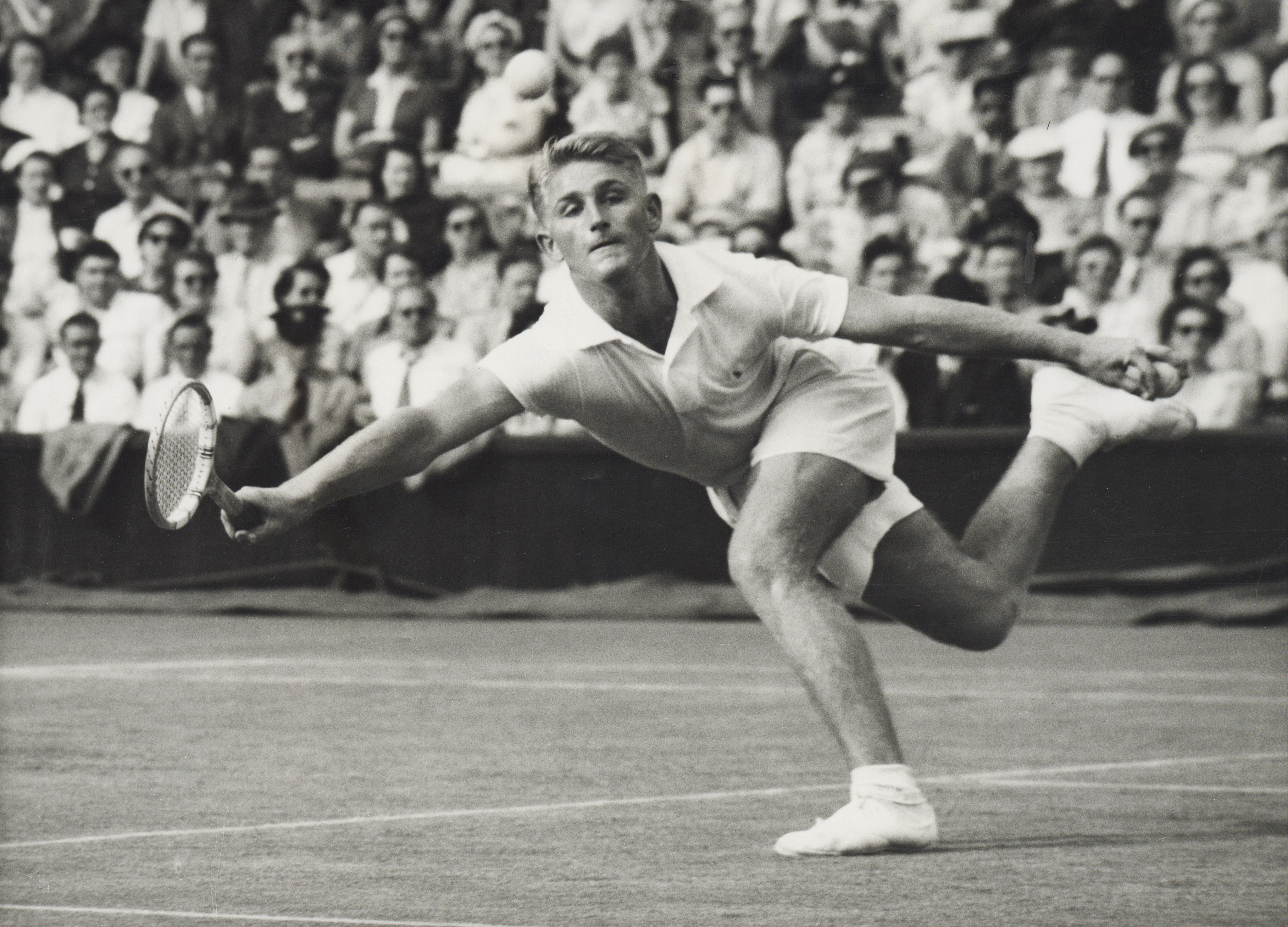 Australian tennis player Lew Hoad in London in 1953